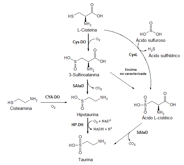 Taurine Biosynthesis